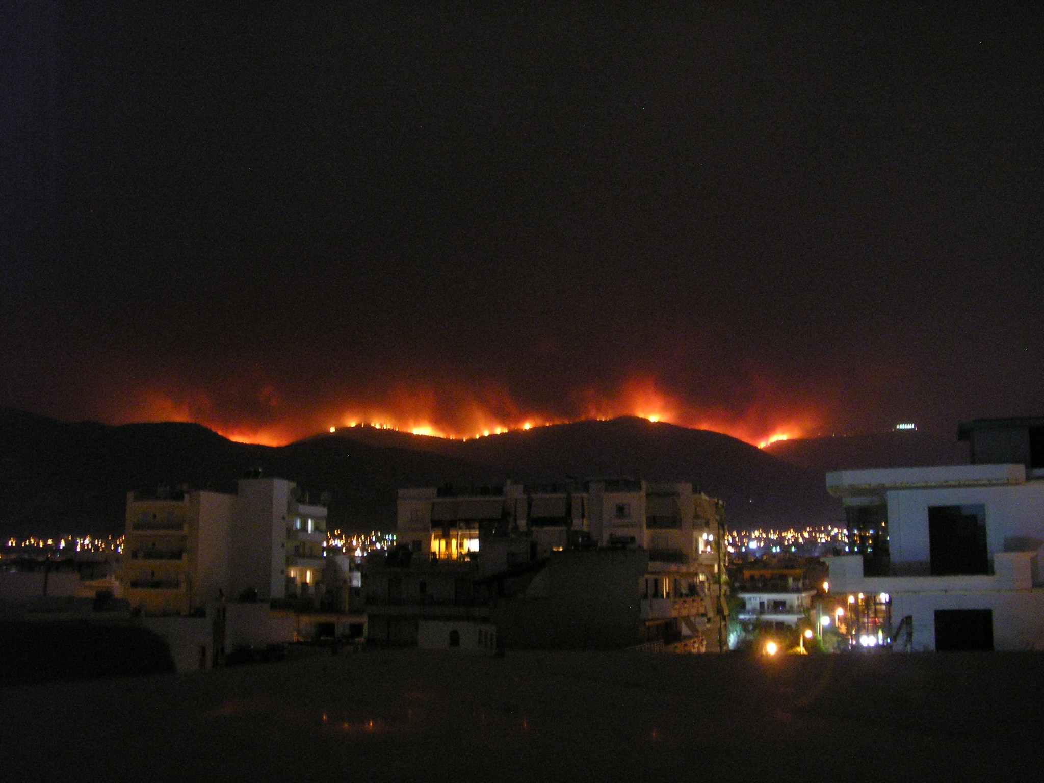 Forest fire near Athens (Parnitha)